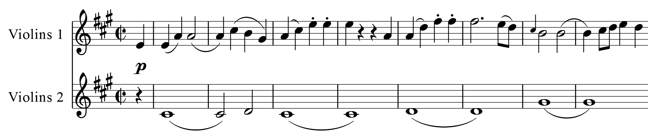 Joseph Haydn, Symphony No. 87, last movement, violins, bar 1-8